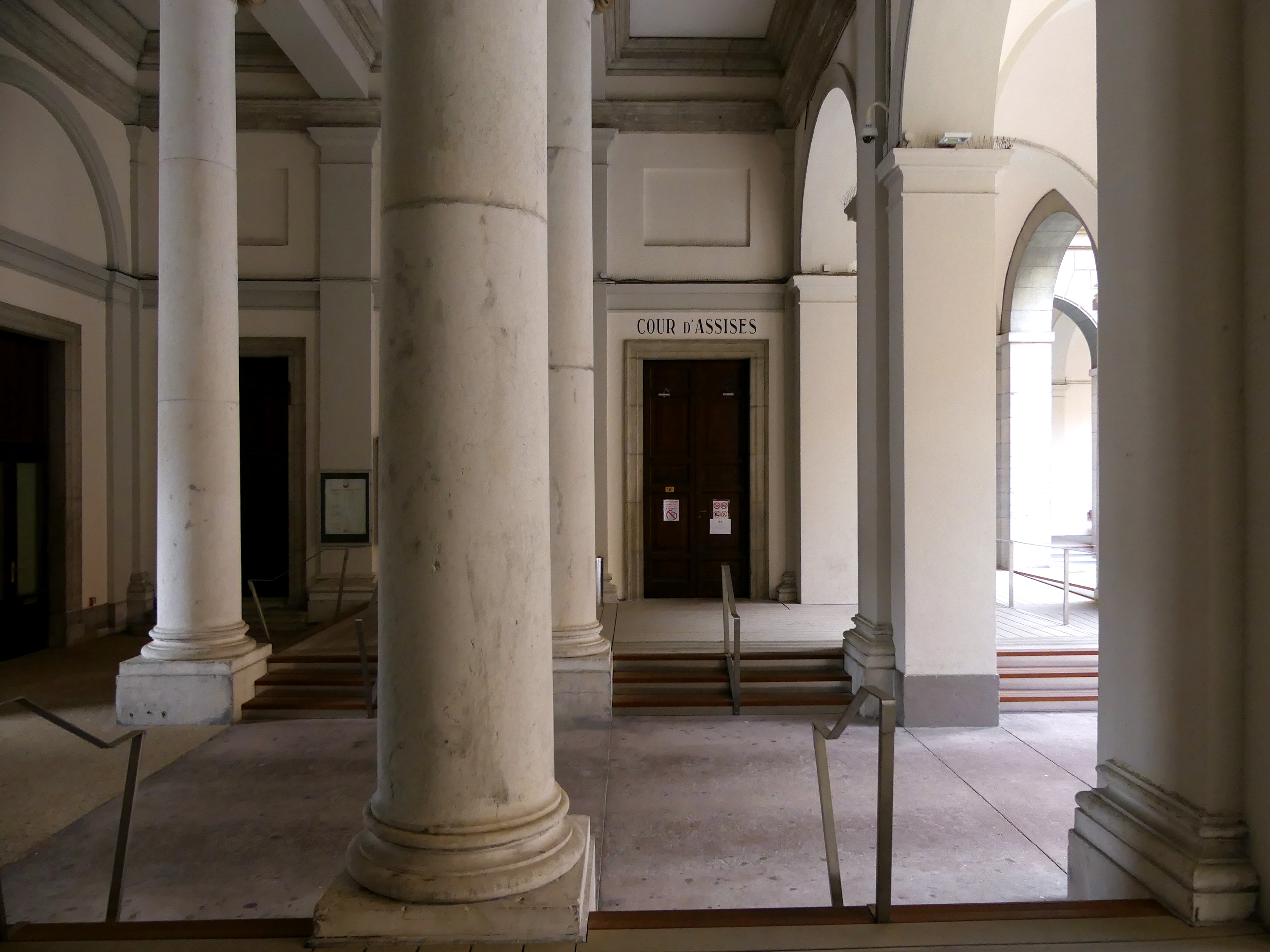 Sight of the gallery between the entrance door (left) and the inner courtyard (right) of the city of Chambéry courthouse, in Savoie, France.